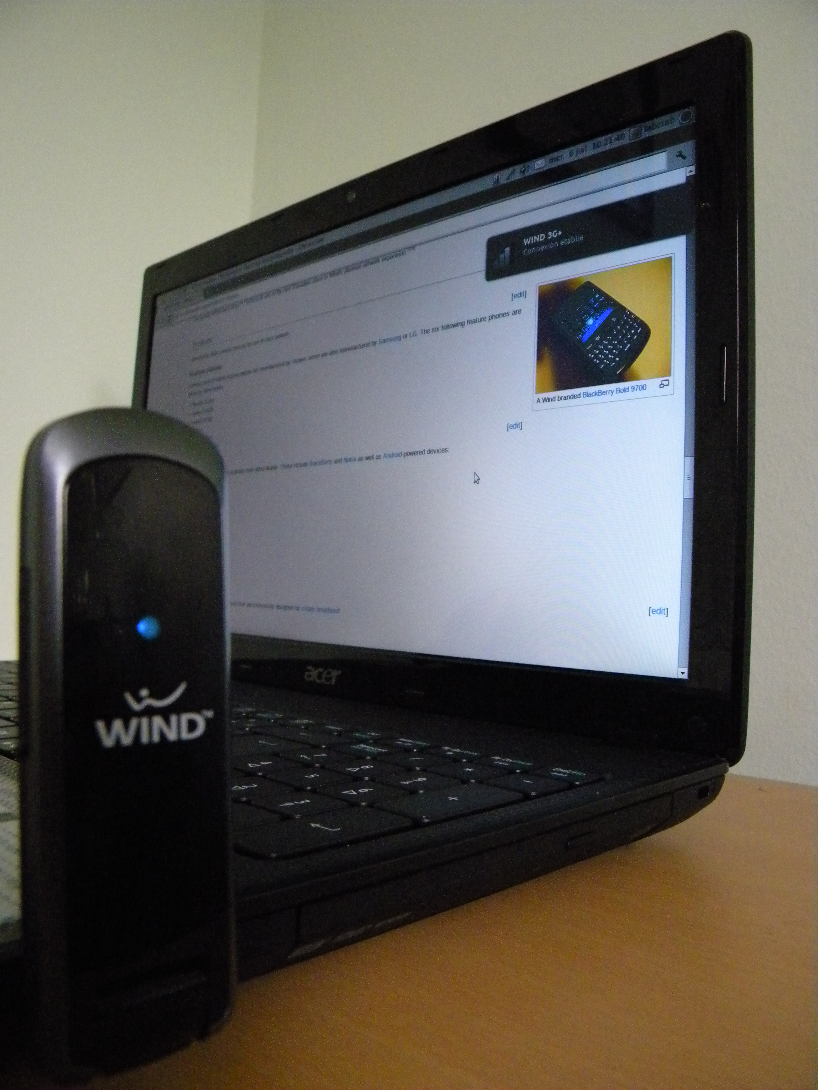 Demonstration of establishment of an Internet connection through a Chinese USB modem provided by WIND Mobile.